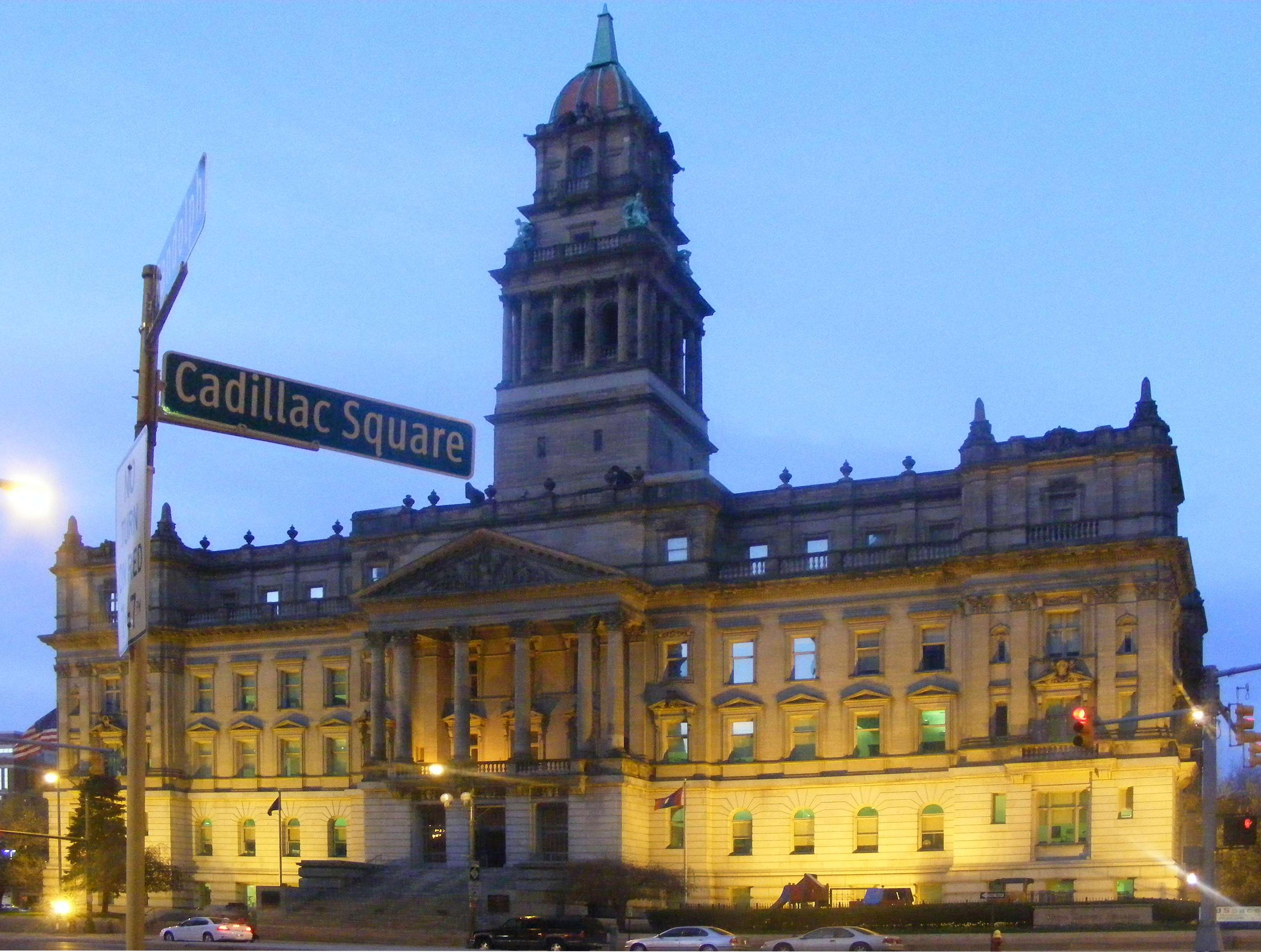 Wayne County Building on Cadillac Square